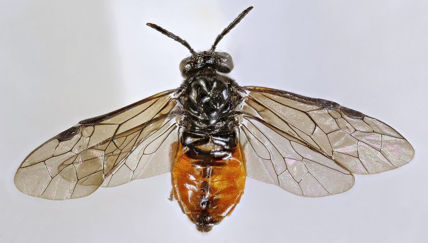 Eutomostethus luteiventris, Trawscoed, North Wales, June 2015